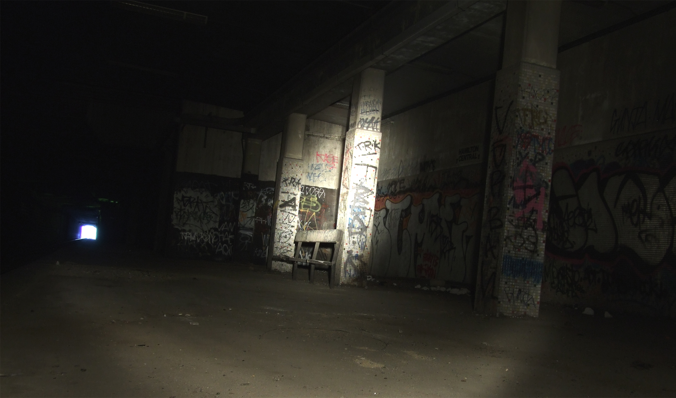 A photograph of Hamilton Central Railway Station, which is a disused railway station underneath the Central Business District in the city of Hamilton, New Zealand.